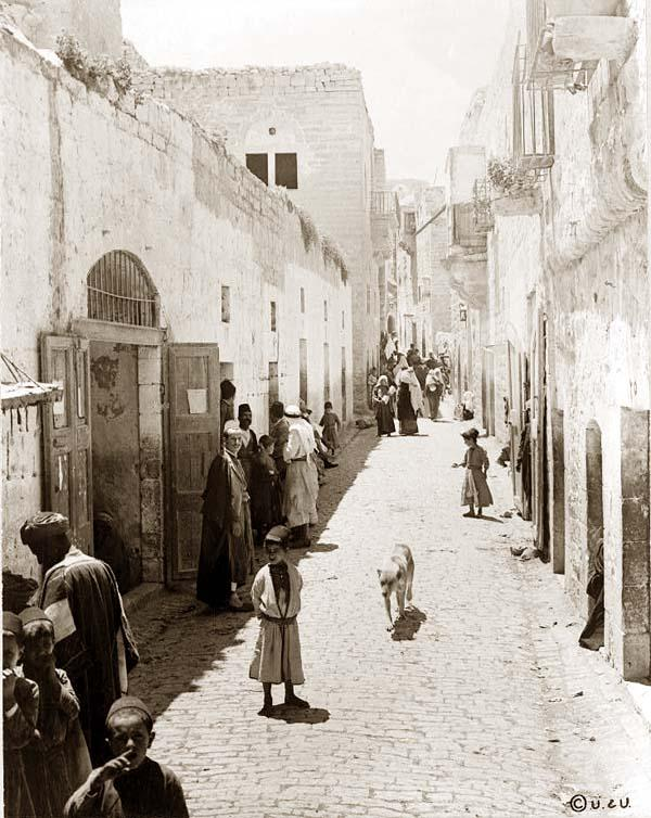 "(...) The main street leading from the Church of Nativity, Bethlehem. It was created in 1880." (text from same source)